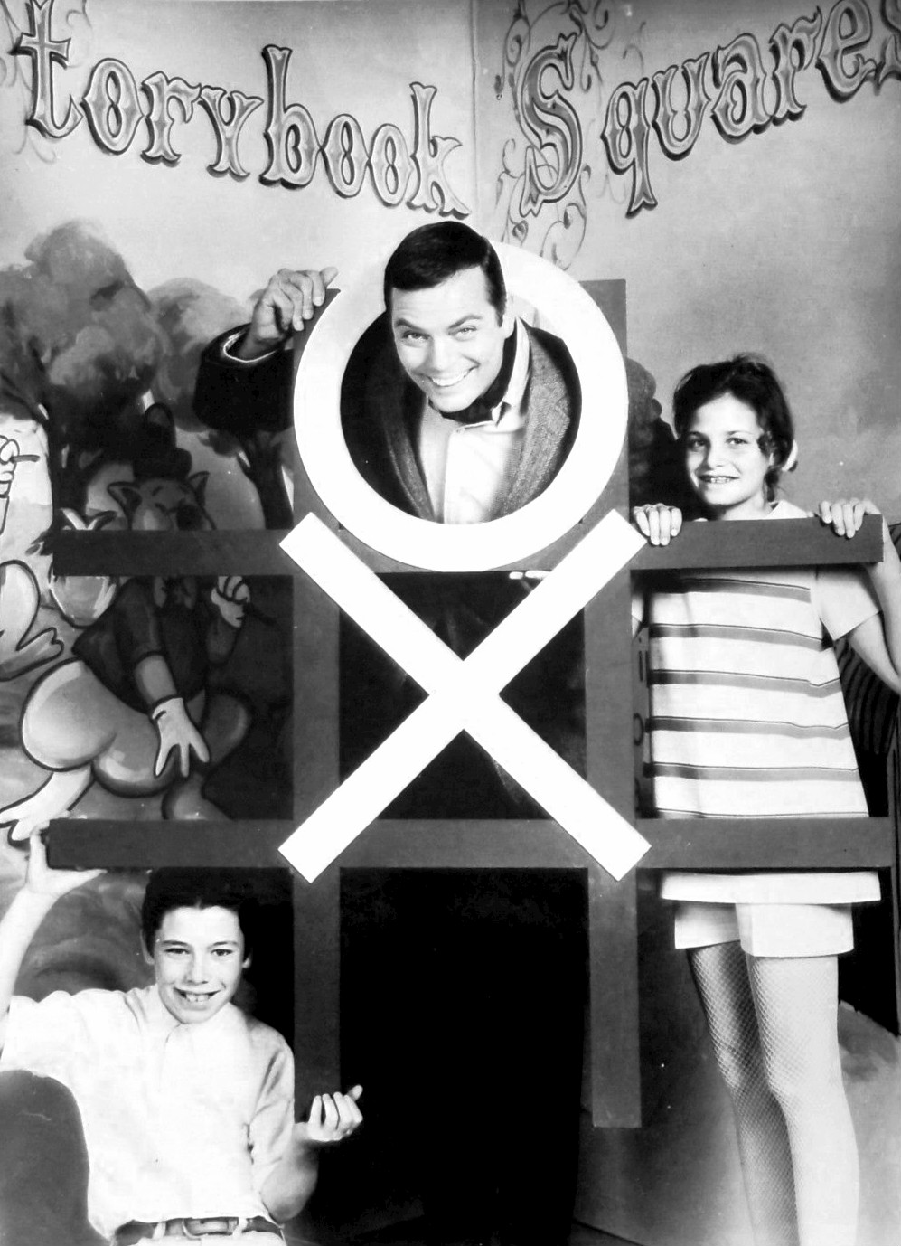 Photo from the premiere of Storybook Squares. The game show was designed to be a child's version of Hollywood Squares. Peter Marshall was the host of both.